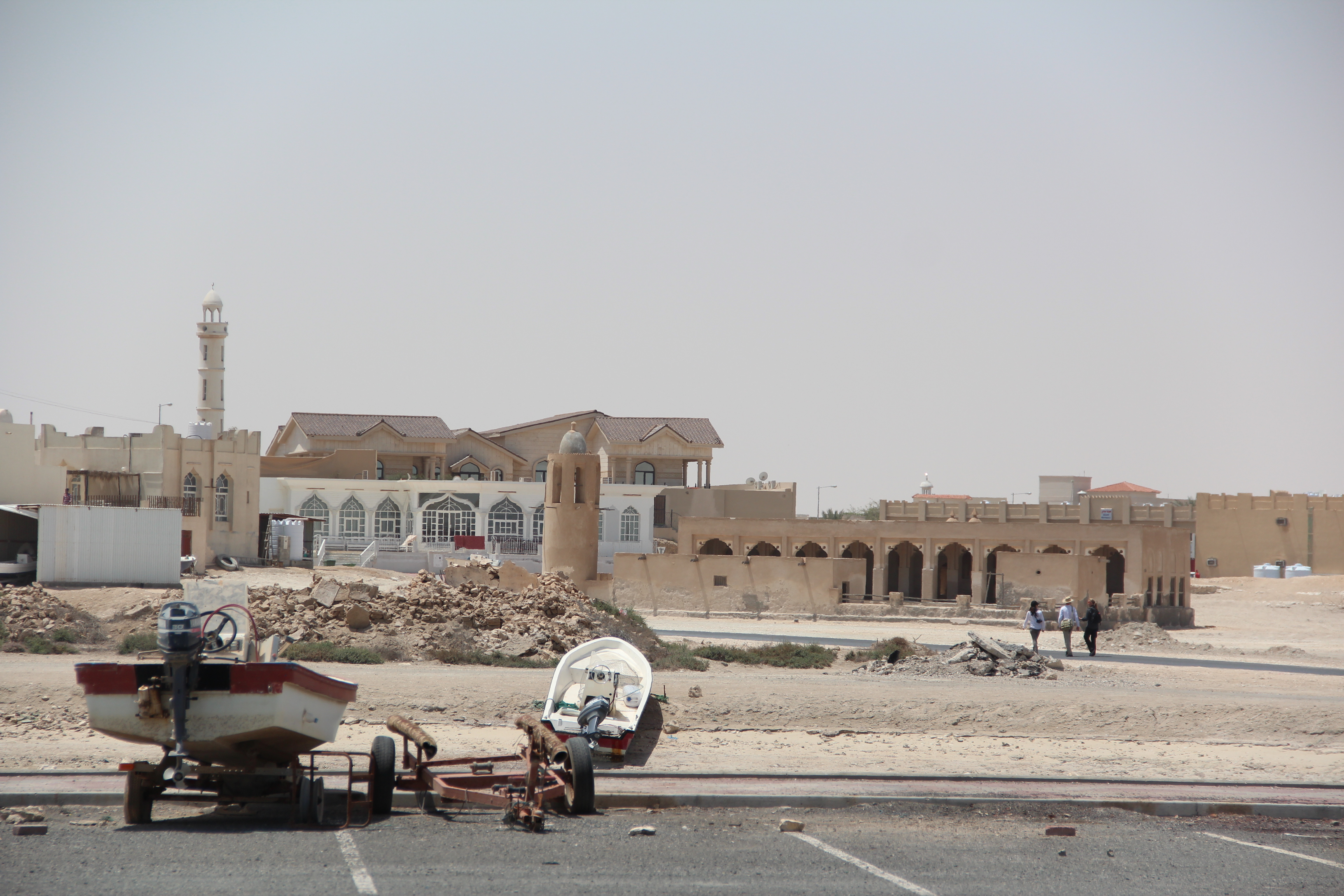 View of Al Thakhira, a town in north-east Qatar, from the beach. The historic Al Thakhira Mosque can be seen.